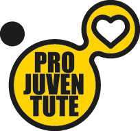 Offizielles Logo der Stiftung Pro Juventute 2016